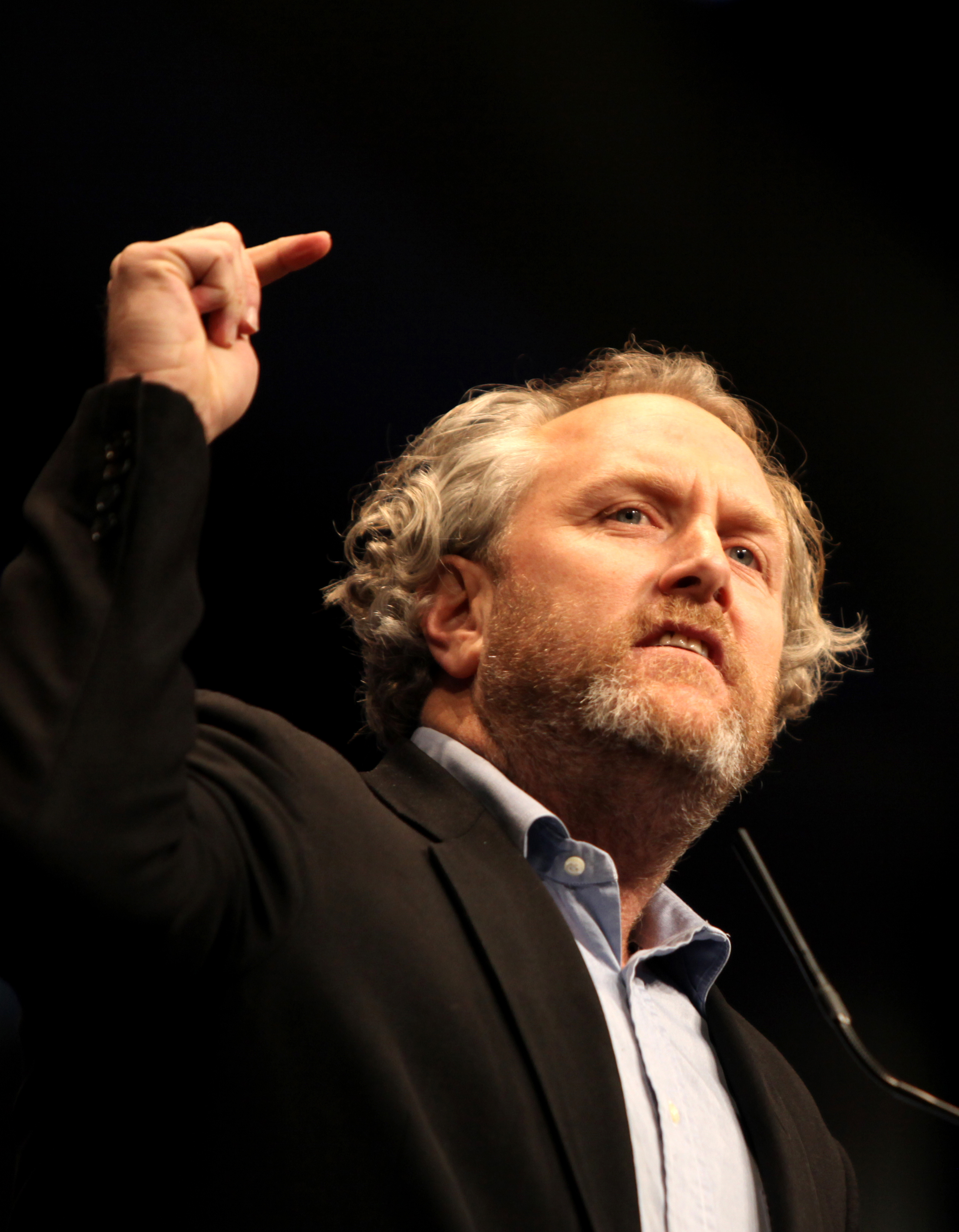 Andrew Breitbart speaking at CPAC in Washington D.C. on February 10, 2012.